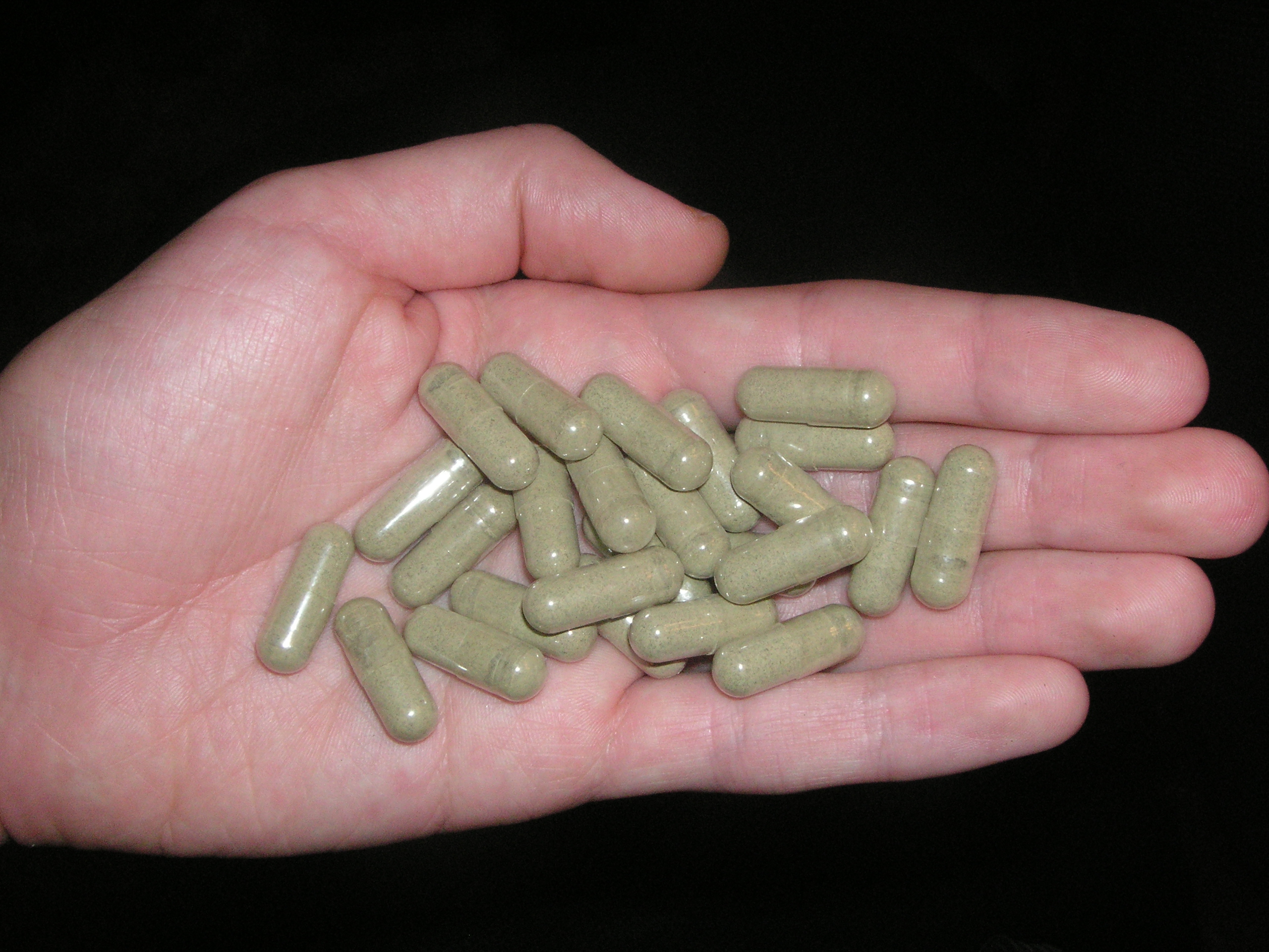 Twenty five size 0 capsules of 500mg of Malaysian Kratom. It takes about ten of these bad boys to get a wonderful fade. The high is opiate like and therefore considered a opioid even though it acts on different receptor sites.